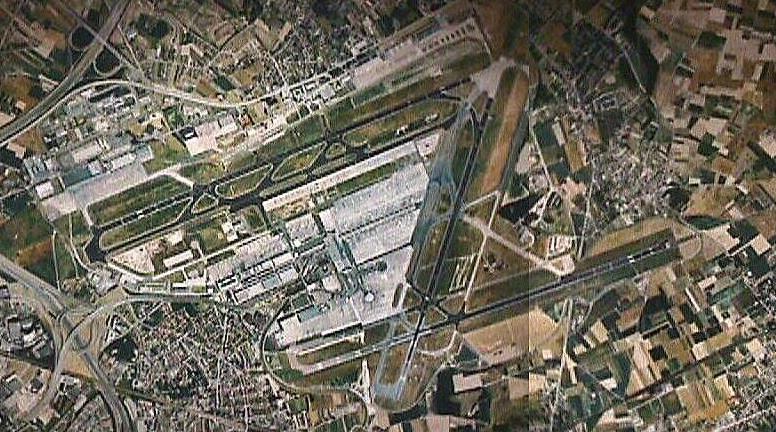 Views of Brussels Airport